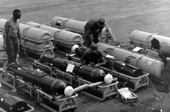 A U.S. Navy Fuel Air Explosive bombs introduction team from the Naval Air Weapons Station China Lake, California (USA), in South Vietnam, 1970.